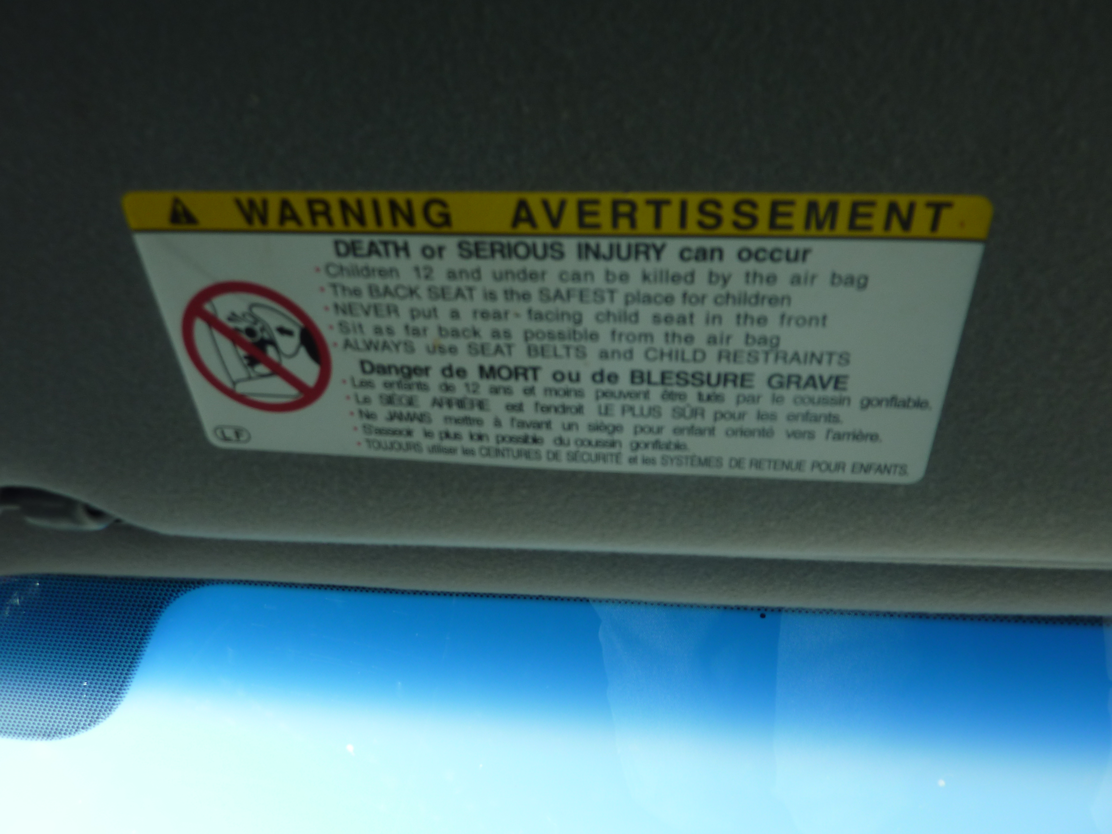 Bilingual (English/French) warning sign in automobile